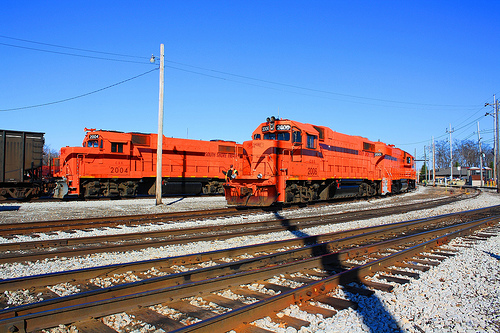 South Shore Line (CSS) GP38-2's idle near the Michigan City Shops.